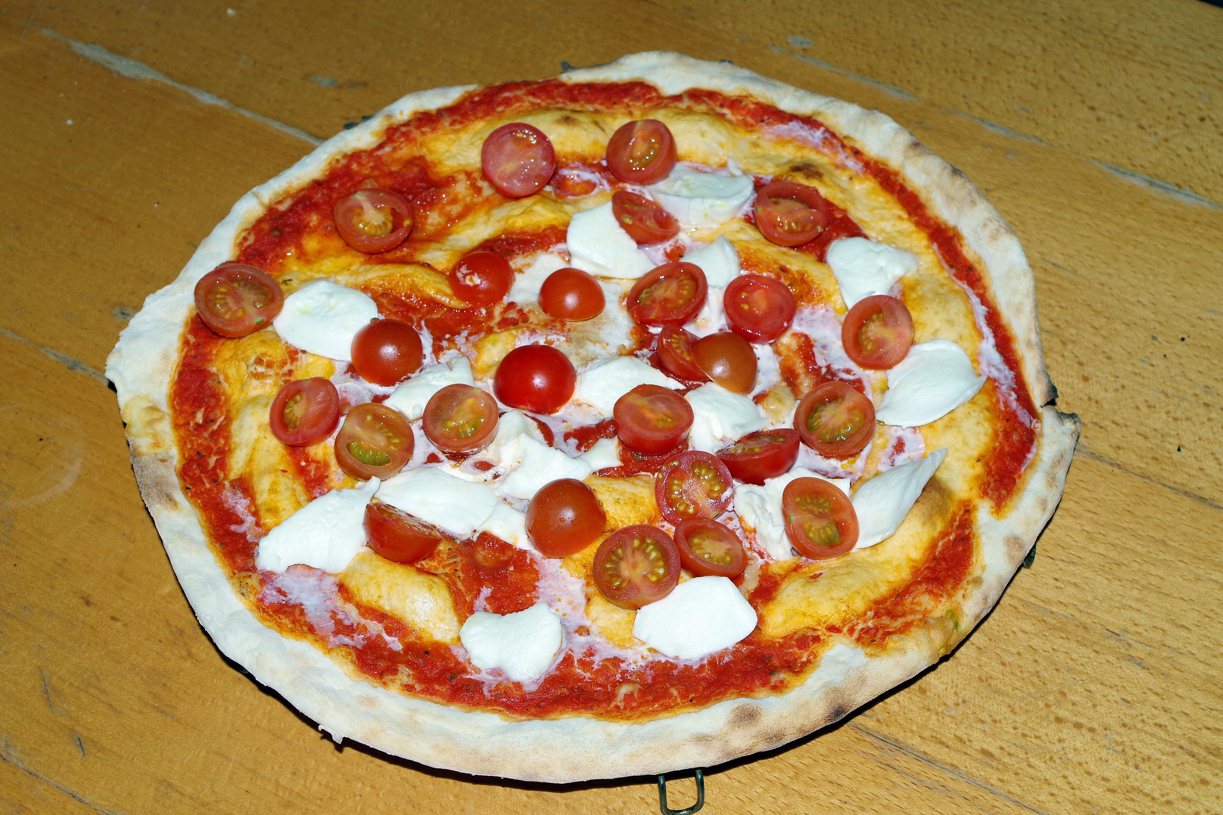 Pizza Caprese with Mozzarella & Cherry Tomatoes